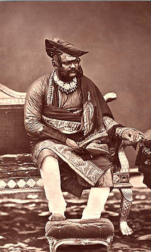 Another view of the Maharajah: a photo by Talboys Wheeler from 'The Imperial Assemblage', 1877 (downloaded July 2004)